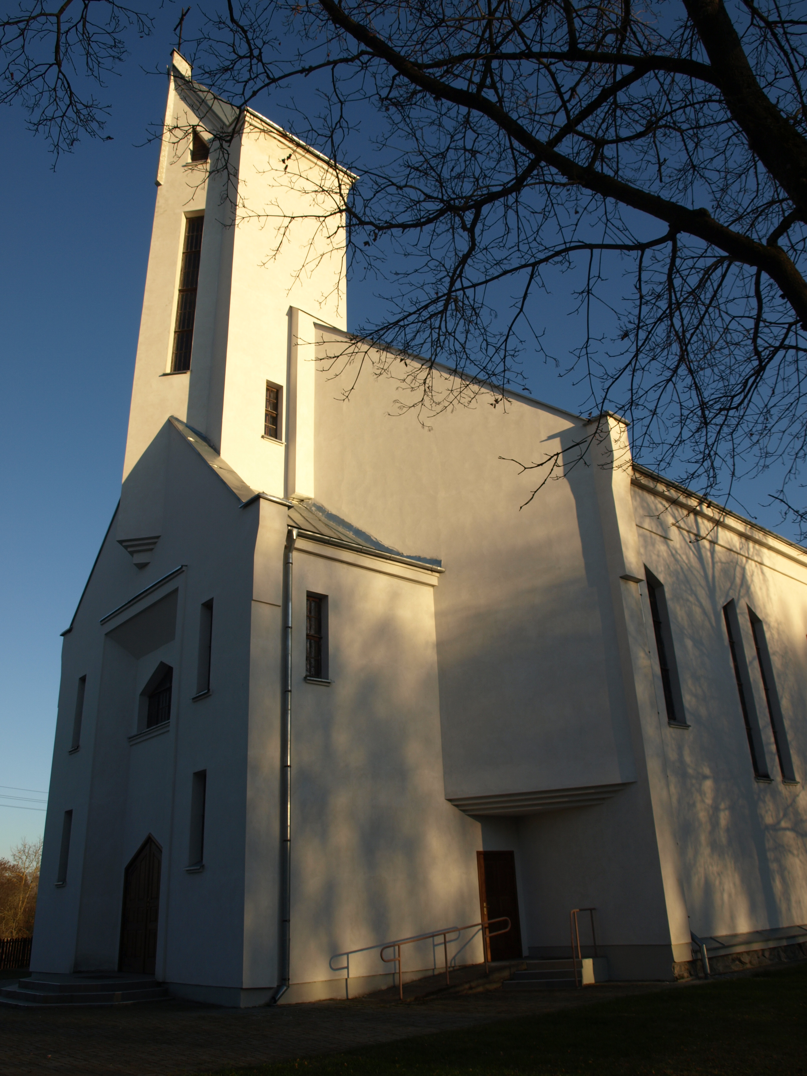 Kiaukliai church, Širvintos district, Lithuania